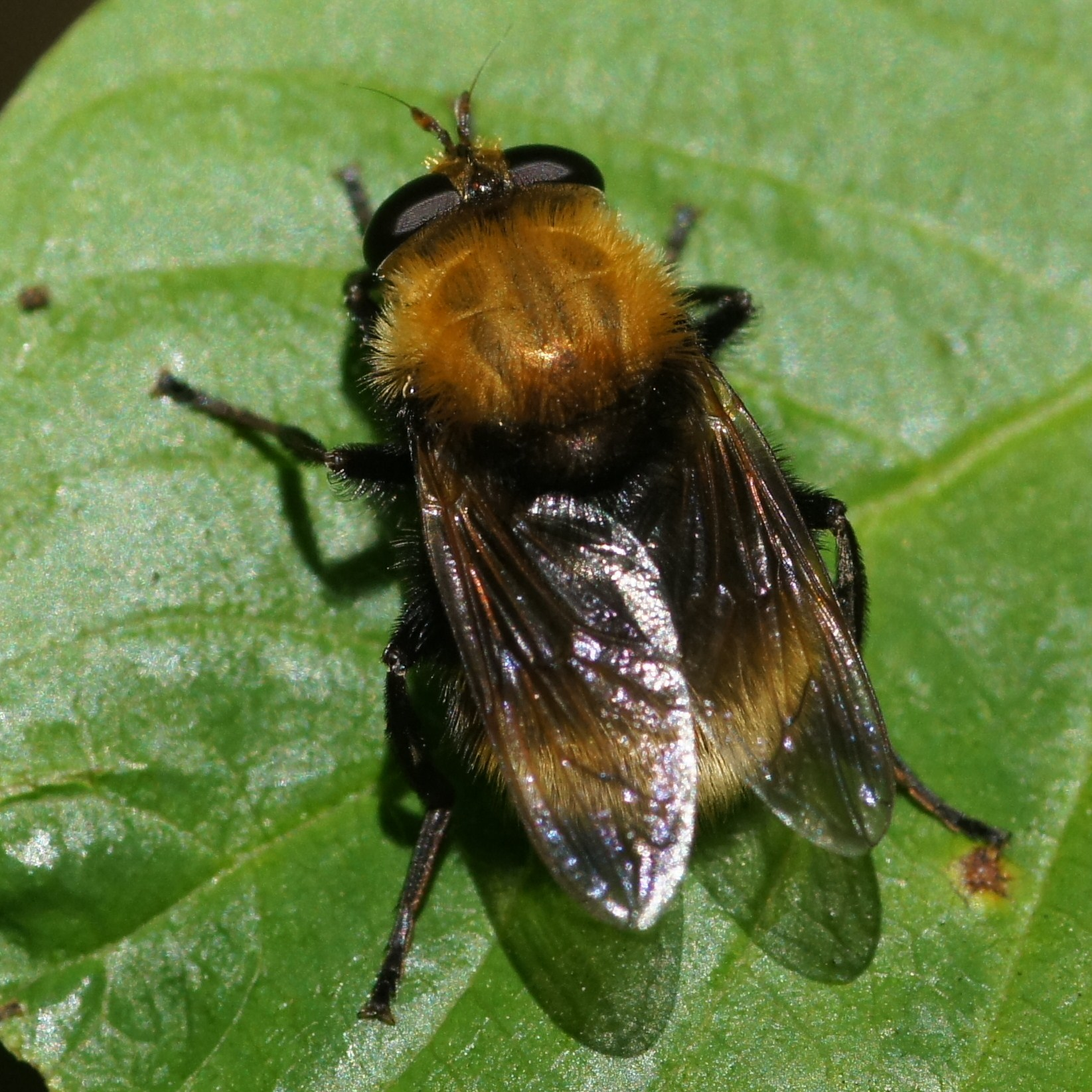 Criorhina berberina (female). Picture taken in Skåne, Sweden.